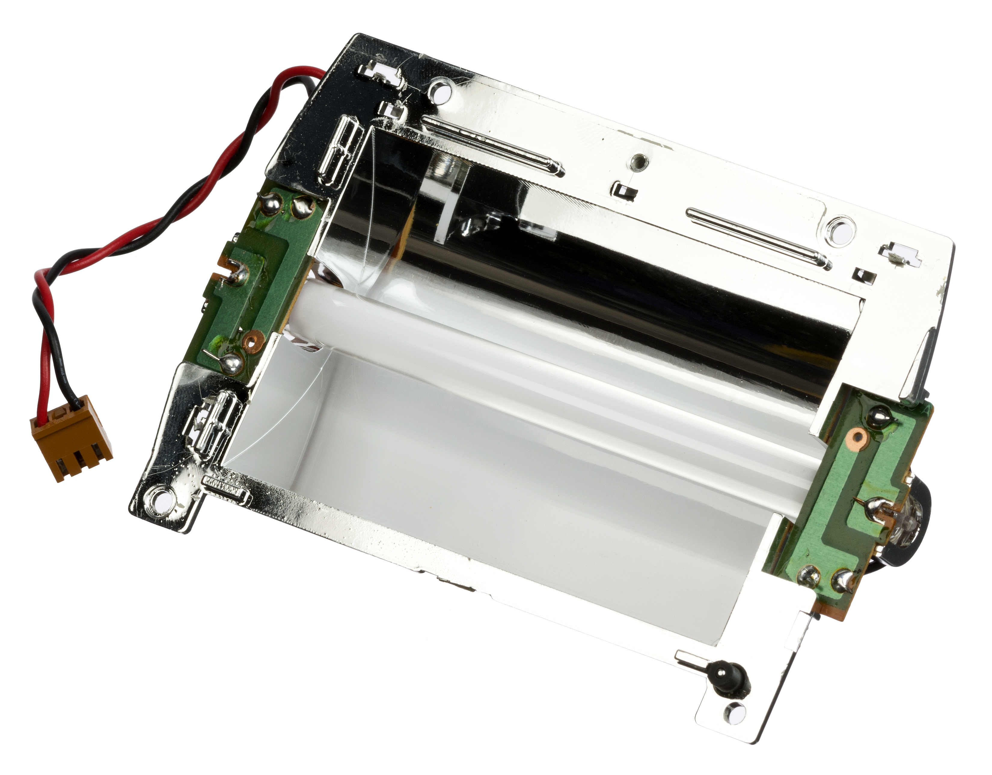 The backlight of an Atari Lynx II, shown with the white diffuser and LCD screen removed. The Atari Lynx and Sega Game Gear shared similar backlights, which were cold-cathode fluorescent lamp tubes (CCFLs). The backlights for both were very power hungry, necessitating six AA batteries that only could power the unit for a few hours. It wasn't until advances in LEDs that backlighting became power economical.